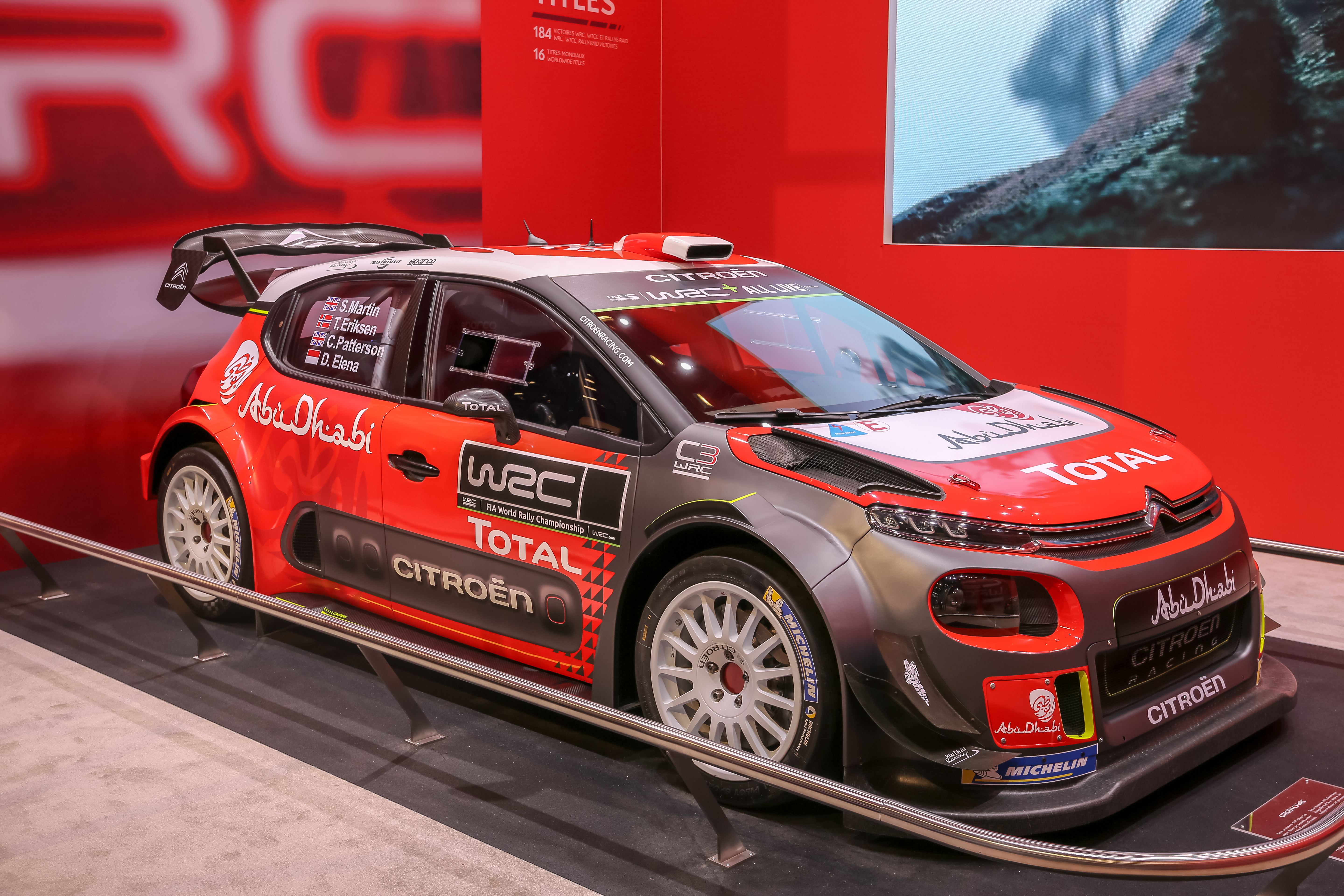 Mondiale Paris Motor Show 2018